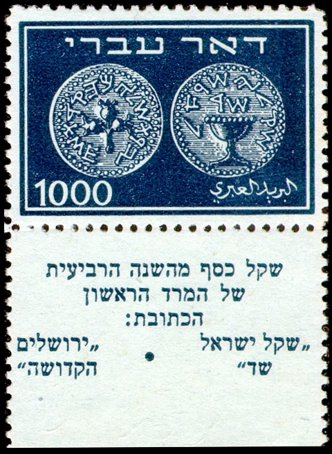 "Hebrew Mail" stamp, from the first and provisional stamp series of the State of Israel, Issued hours after The Declaration of Independence - 1000 mil. Inscription on tab: "Silver coin from the fourth year of the first revolt." The coin inscriptions: "Shekel Isreal year four", "Jerusalem the Holy".